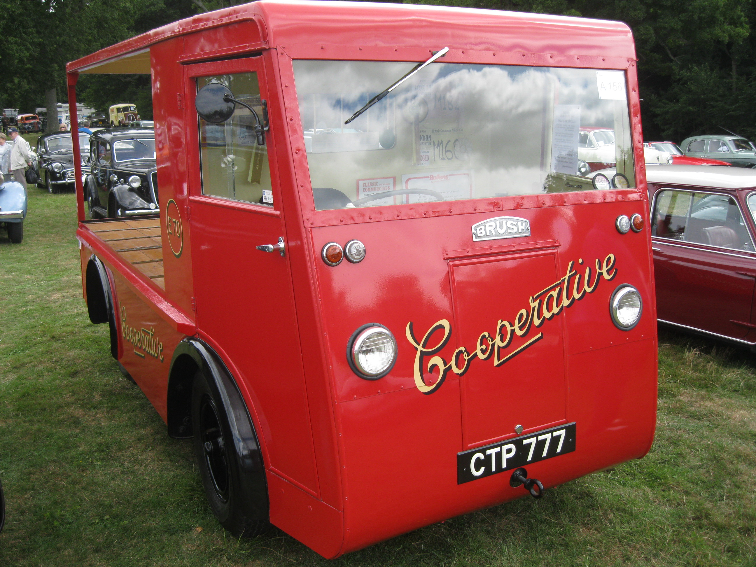 Spotted at the Bluebell Railway Vintage Transport Weekend 10.08.13